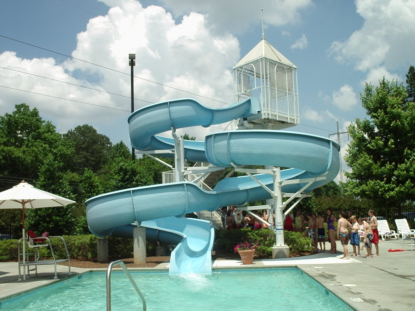 A water slide that empties into a swimming pool. Children are waiting in line for it to open.